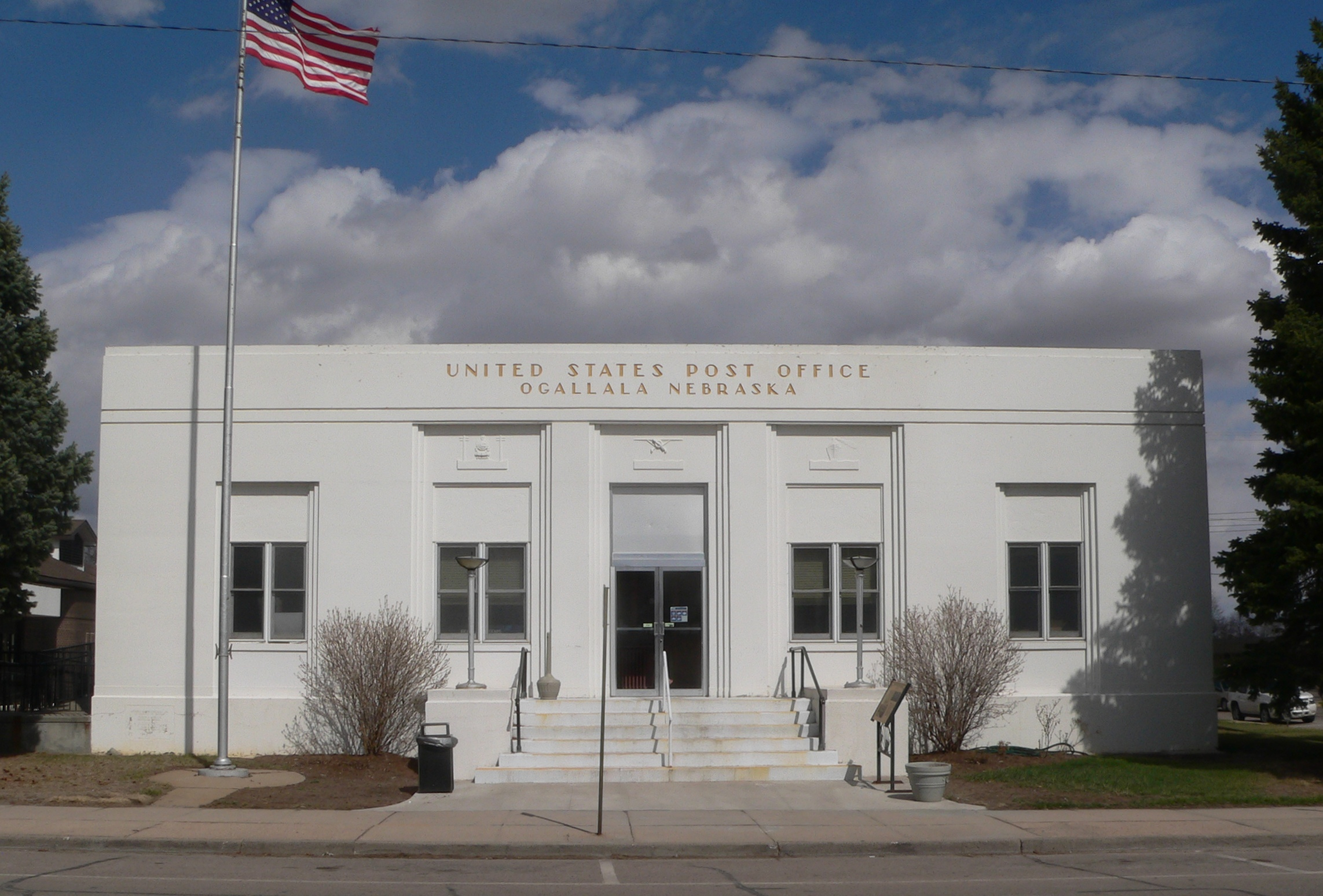 Ogallala, Nebraska post office, located at 301 N. Spruce Street; seen from the west, across Spruce.